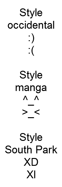 Three styles of smiley